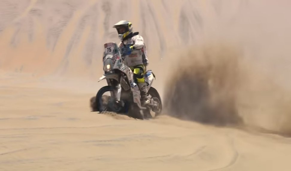 Dakar 2018. Moto running through fesh-fesh sand (Lhotsky) Peruvian dunes near San Juan de Marcona. Stage 4. Taken from Video "DAKAR 2018 - Etapa 4. San Juan De Marcona - San Juan De Marcona" (Barth Racing).